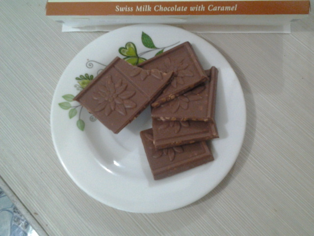 A picture with the Villars Swiss Chocolate, with served plate and the carton box above.